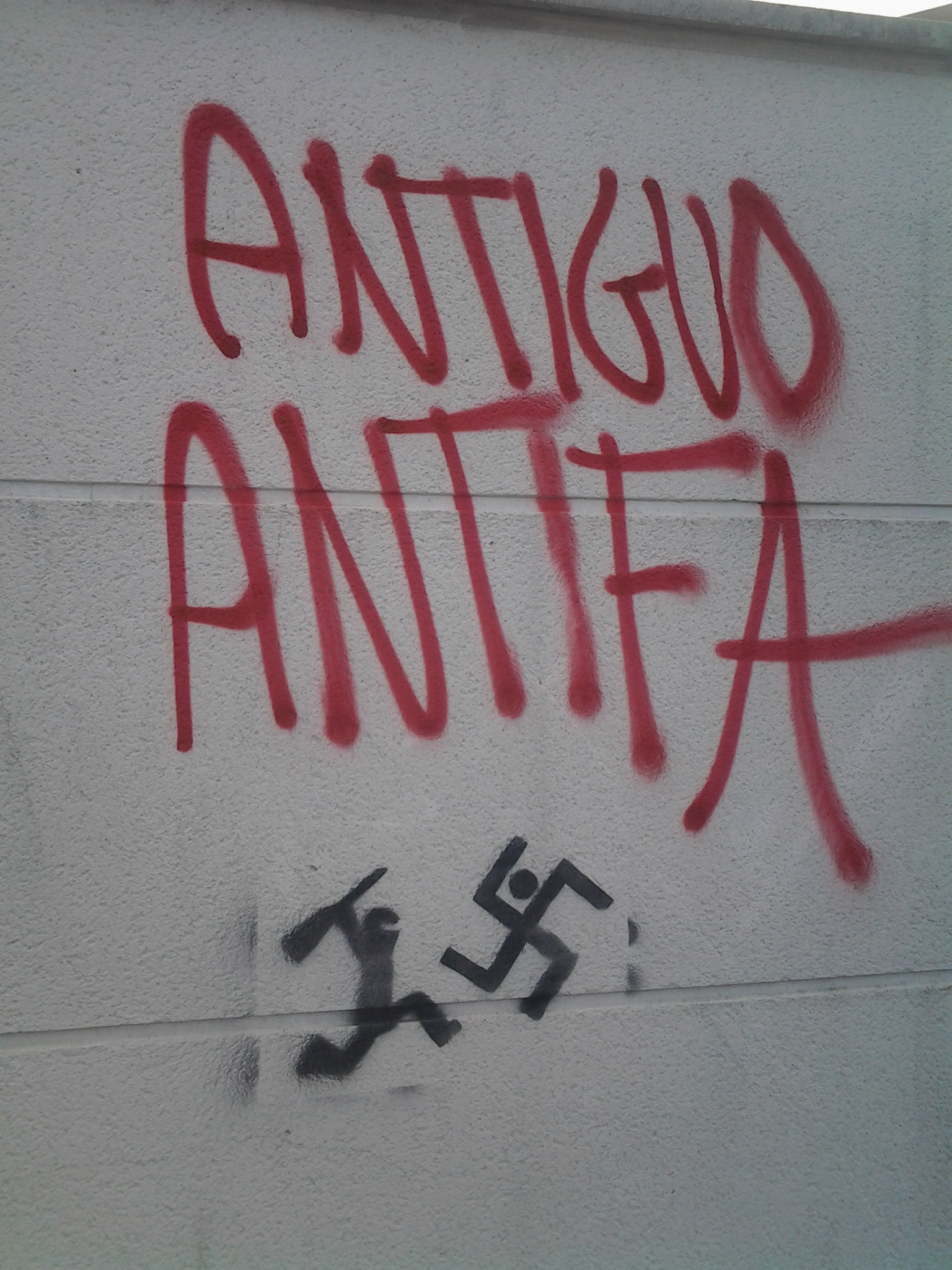 Antifascist graffiti in Antigua, Donostia.